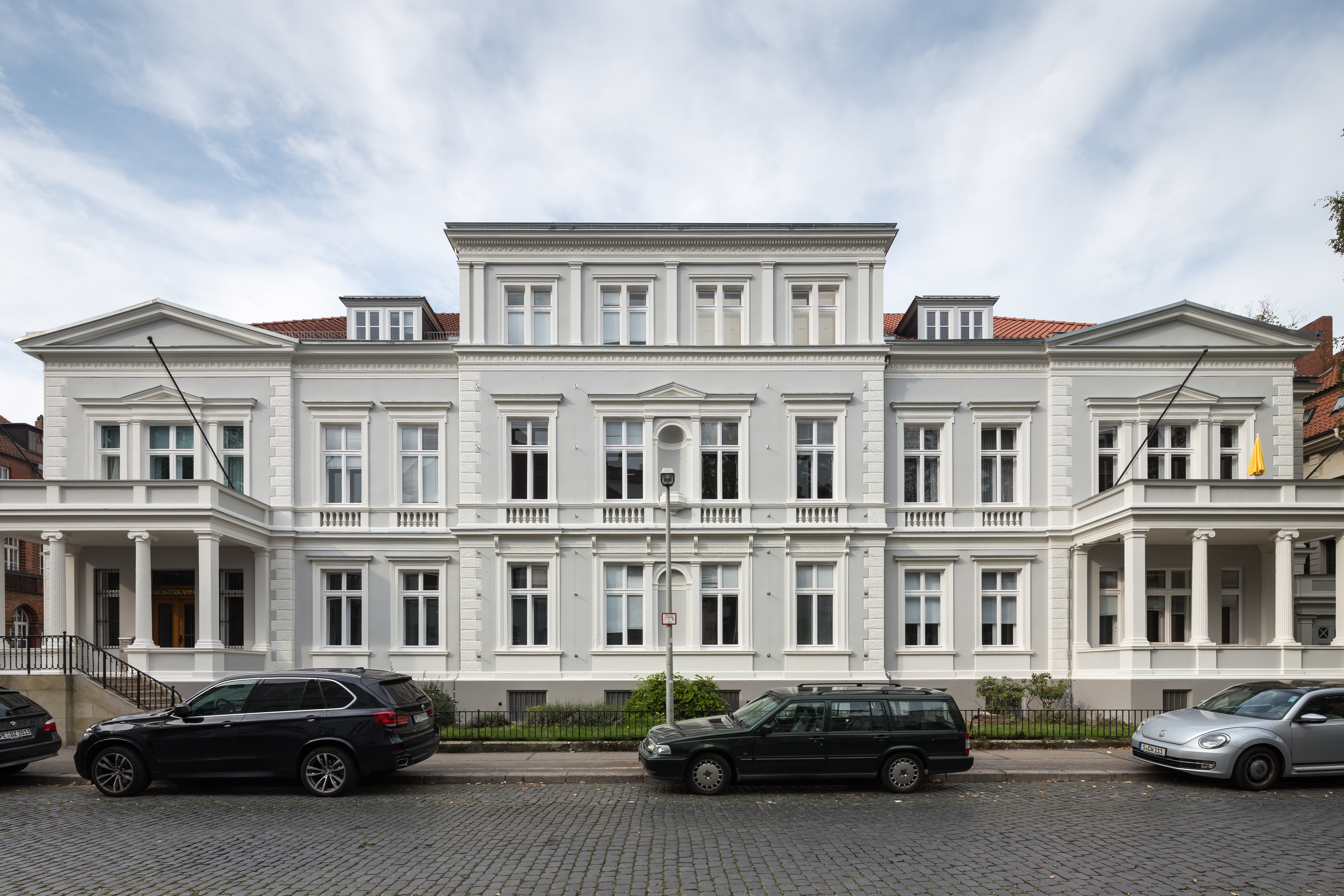 Klosterkammer Hannover building located at Uhlemeyerstrasse (pictured) and Eichstrasse in Oststadt quarter of Hannover, Germany.